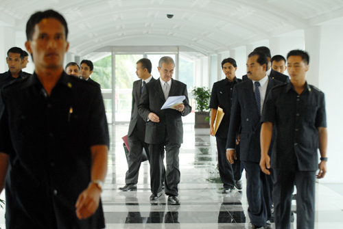 The Prime Minister of Malaysia, Abdullah Badawi, entering the Parliament House.